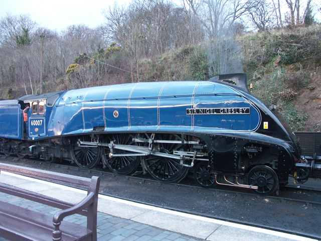 60007 visiting Bewdley, near to Bewdley, Worcestershire, Great Britain. At the start of a Severn Valley Railway Gala, Gresley A4 Pacific 60007 "Sir Nigel Gresley" waits for its day of running between Kidderminster and Bridgnorth. See also Link